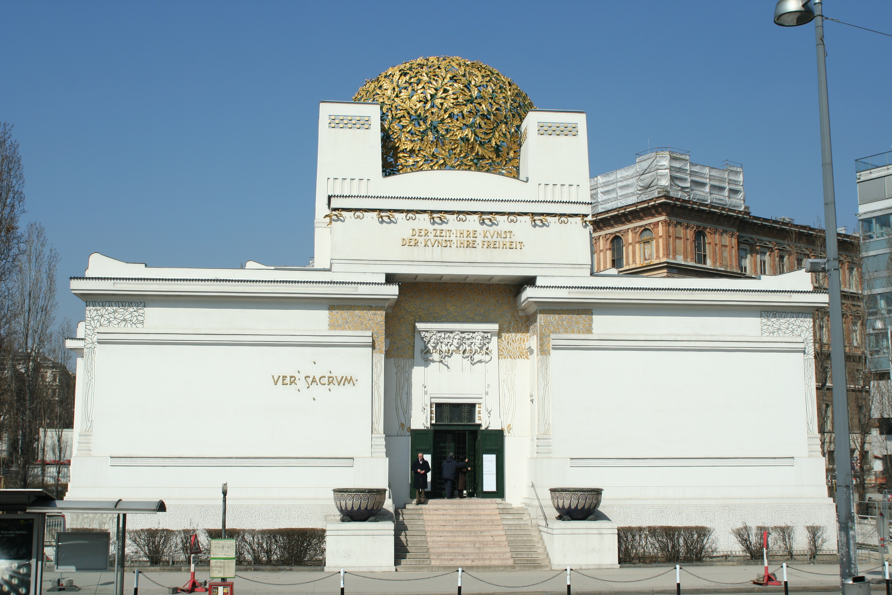 Austria, Vienna, Secession hall